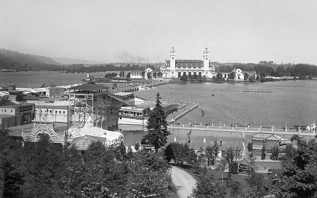 Amateur photographer George Brown most likely took this view of Portland’s 1905 Lewis and Clark Centennial Exposition from the north porch of the Washington State Building. Brown also played clarinet in Wagner’s popular concert and marching band, which was probably performing at the Expo. (pic courtesy of Bill Greer)